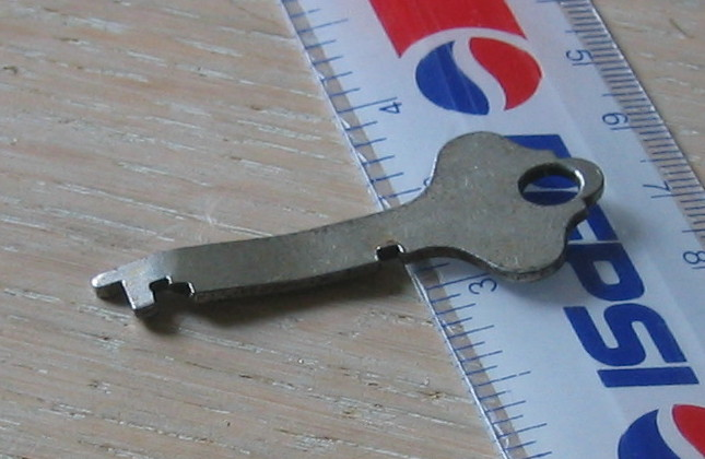 One of many metal objects apparently bent psychokinetically by Matthew Manning while being closely watched by participants at the 1974 Toronto Psychokinesis Conference. He said he could direct energy he could feel in his body to objects in his hands, which would become responsive to his imagery. No rapid movements were seen while he was doing this. This key was the photographer's own personal one, and had not been handled previously by Manning.